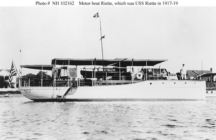 Motorboat Riette prior to her United States Navy service as patrol boat USS Riette (SP-107) in an icy harbor